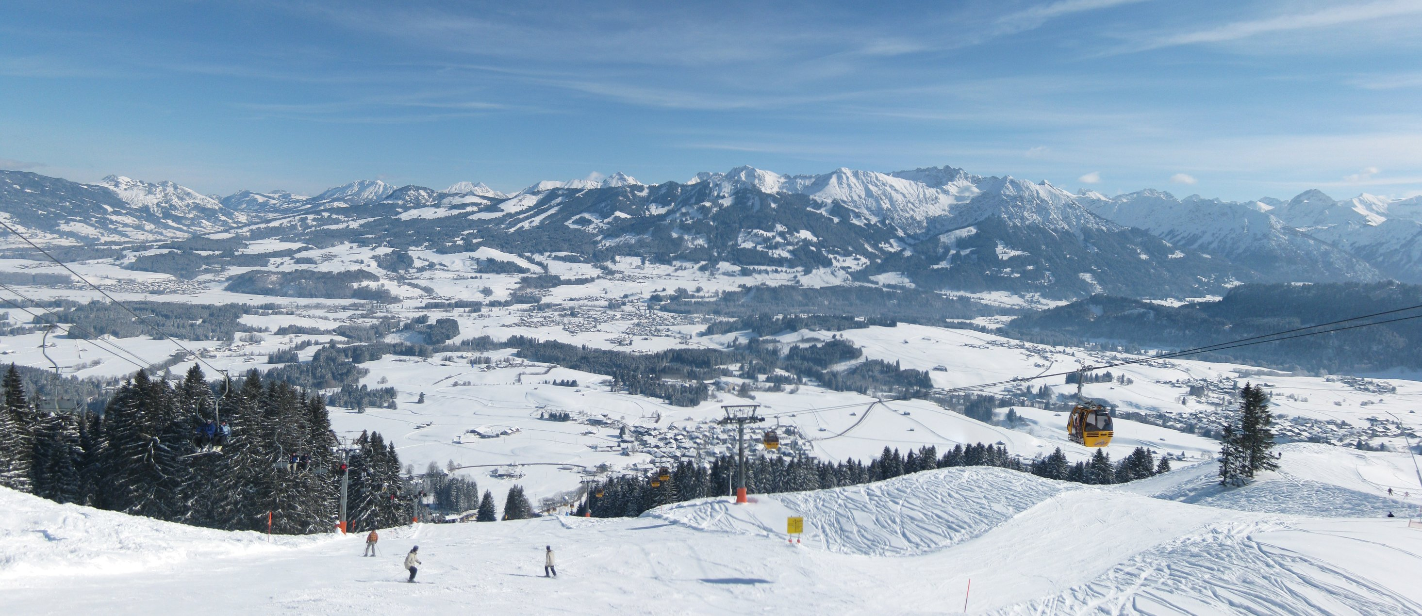 View from the middle station of Hörnerbahn chairlift towards Bolsterlang and Fischen im Allgäu. NOTE: This image is a panorama consisting of multiple frames that were merged in software. As a result, this image necessarily underwent some form of digital manipulation. These manipulations may include blending, blurring, cloning, and color and perspective adjustments. As a result of these adjustments, the image content may be slightly different than reality at the points where multiple images were combined. This manipulation is often required due to lens, perspective, and parallax distortions. This image was created with Hugin